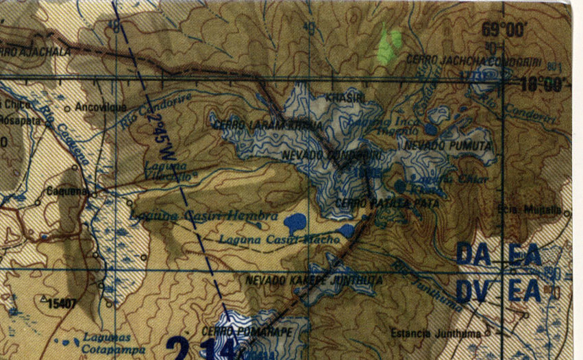 Arica, Tacna